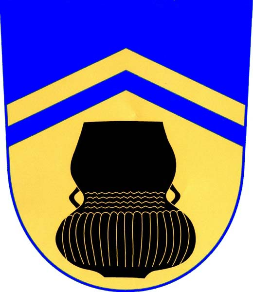 Municipal coat of arms of Knovíz village, Kladno District, Czech Republic.